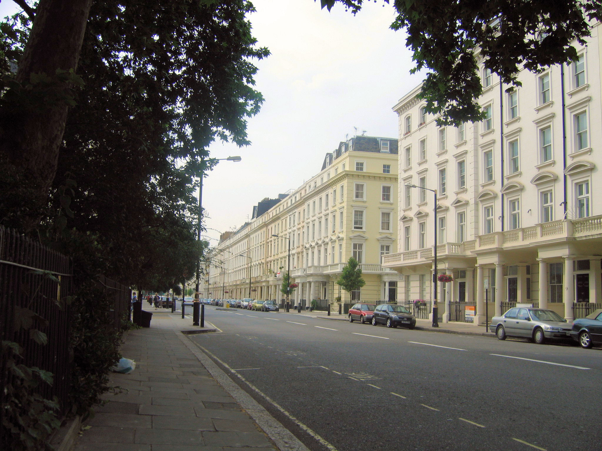 My own photo taken June 2007. I release this photo into the public domain. Don Joseph